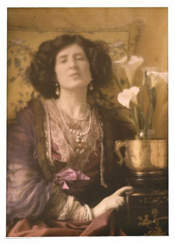 Lady Ottoline Morrell 1907